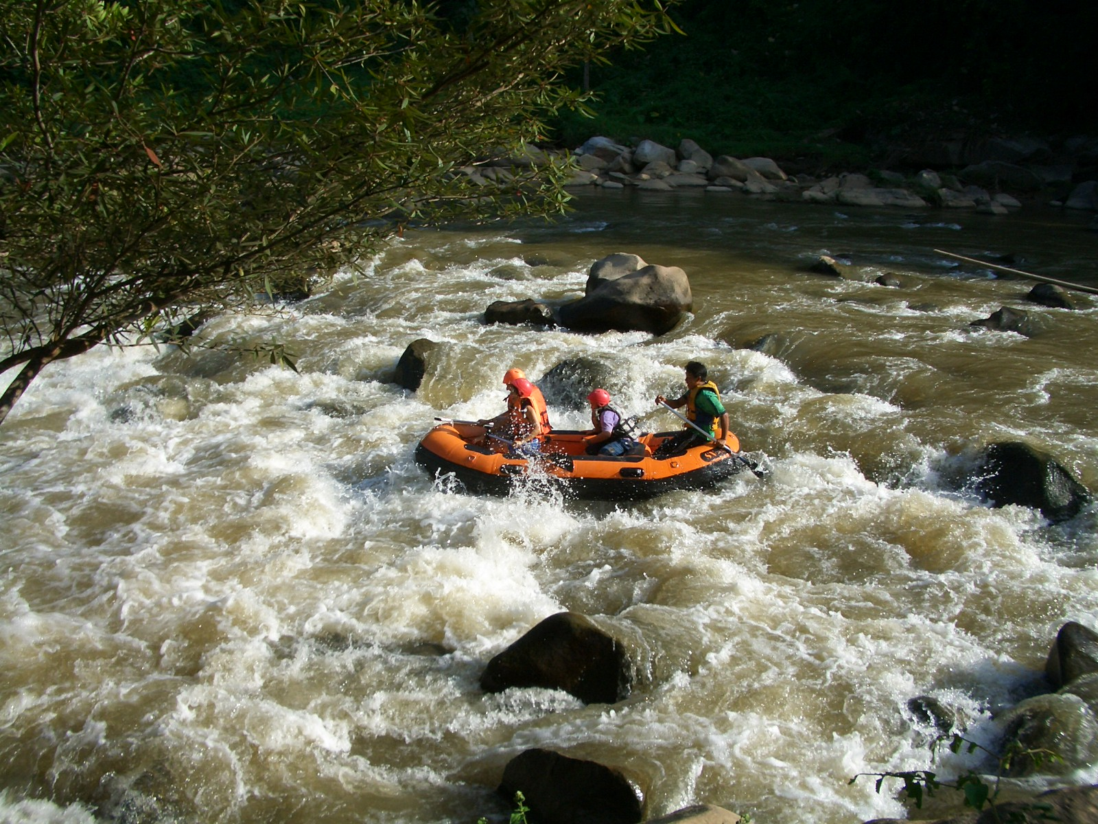 Whitewater rafting